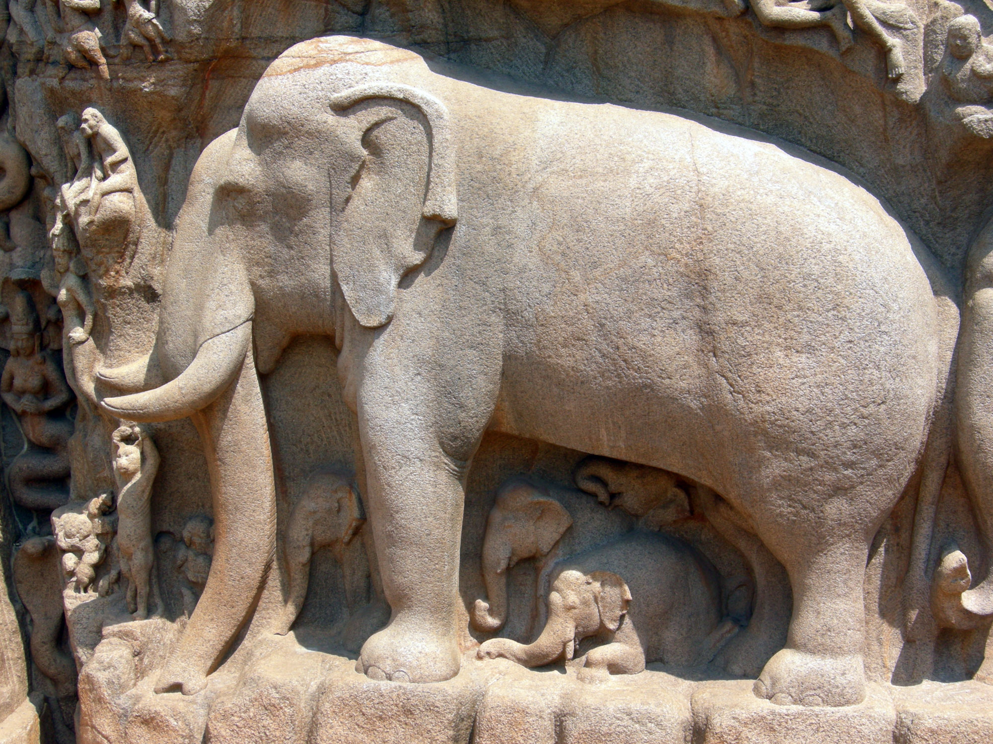 Elephant and other creatures carved in granite; Mahabalipuram, India.